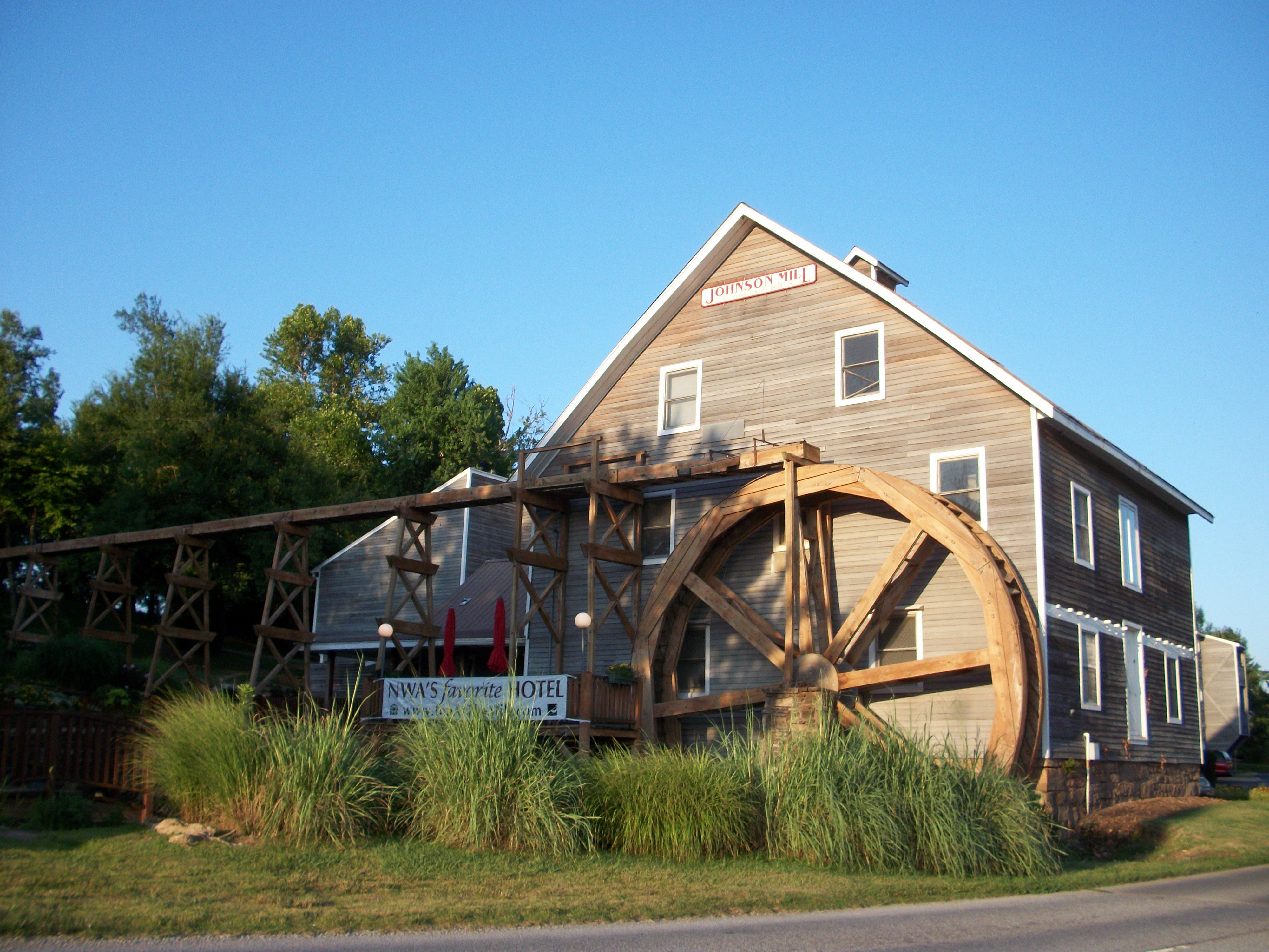 Johnson Mill hotel in Johnson, Washington County, Arkansas